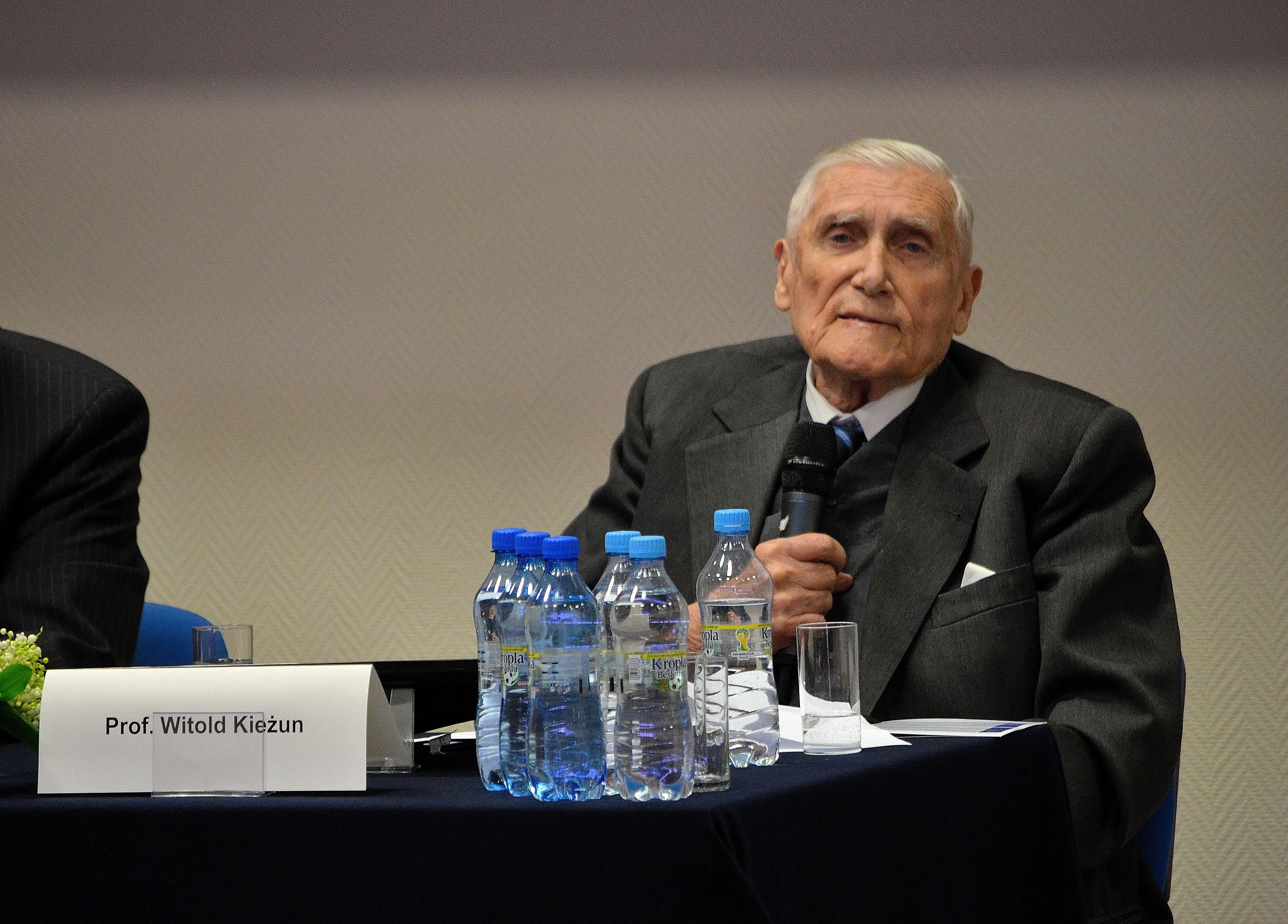 Profesor Witold Kieżun. Conference "A quarter-centry of Polish transformation, and what next?" at Koźmiński University in Warsaw